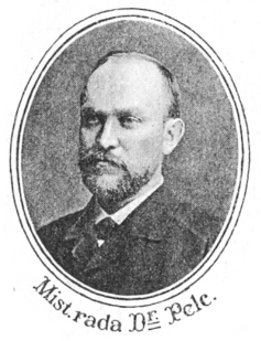 Portrait of Hynek Pelc (1844-1915), Czech physician and public health official. Cropped from a gallery of founders of a Czech Medical Student Association.